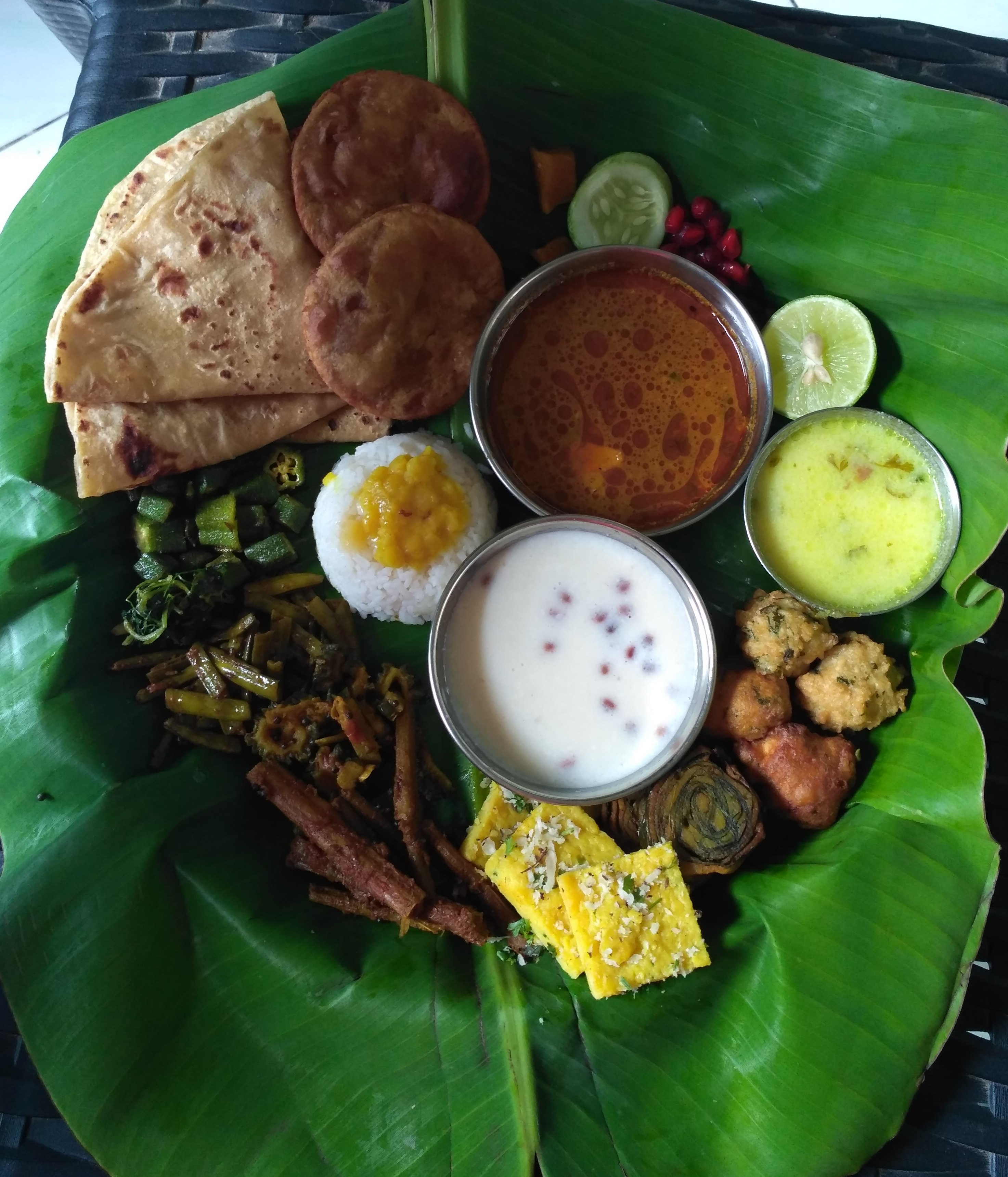 Pitrupakshatil shradhhacha naivedya